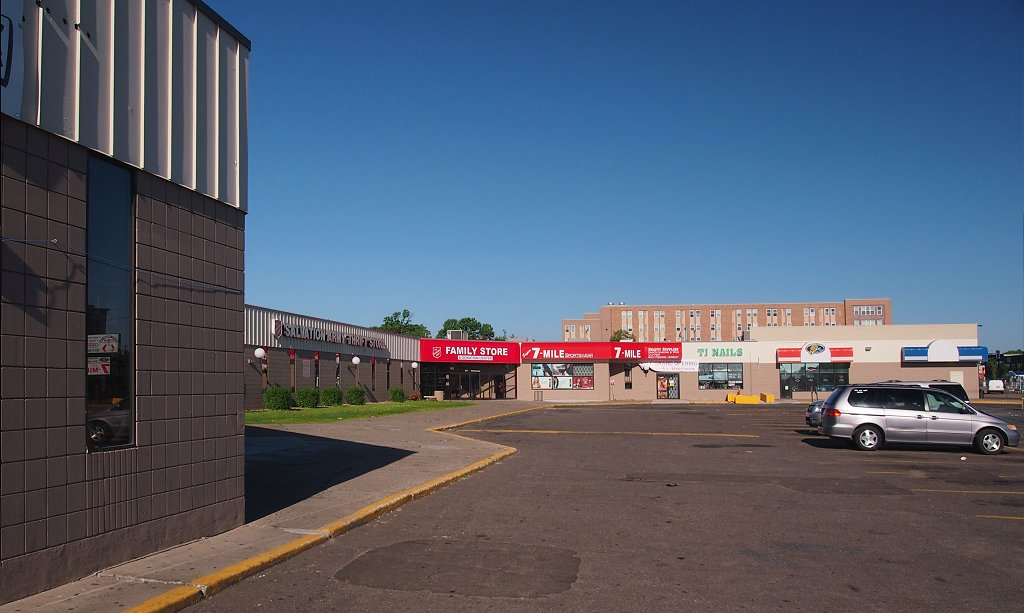 Unidale Mall, St Paul, Minnesota, USA. Viewed from the east-northeast.